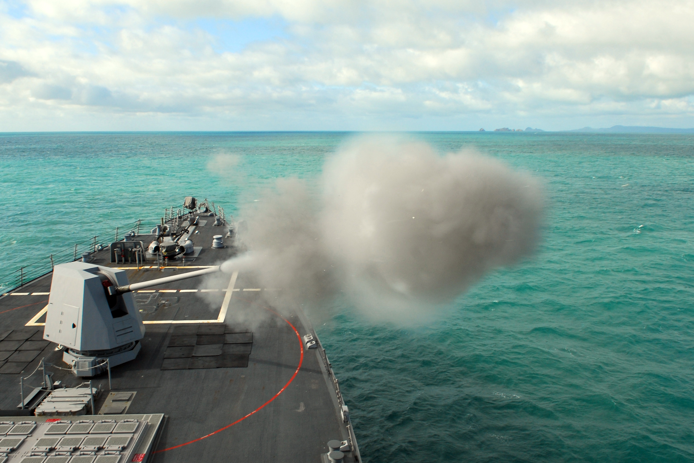 CORAL SEA (July 14, 2009) The guided-missile destroyer USS McCampbell (DDG 85) fires the MK 45 five-inch gun system during a naval surface fire support exercise at a training area off the coast of Australia. McCampbell is underway supporting the bilateral training exercise Talisman Saber 2009, an exercise between U.S. and Australian forces designed to enhance interoperability. (U.S. Navy photo by Mass Communication Specialist 2nd Class Byron C. Linder/Released)